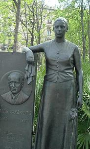 Memorial to Lluís Company, who on October 6, 1934, led a Catalan Nationalist uprising against the center and right/wing republican government, and had proclaimed the Catalan State Picture taken April 2006. Barcelona (near Arc de Triomf).